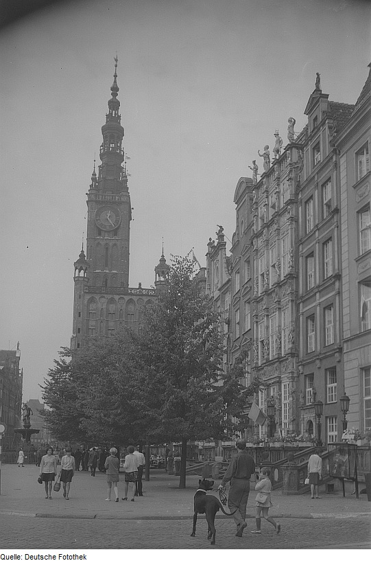 Gdańsk Long Market Square in 1906.